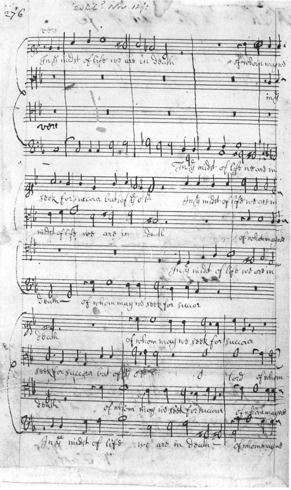 Autograph manuscript of the second of Purcell's Funeral Sentences, "In the midst of life we are in death," British Library, Ms. Add. 30931, folio 81v